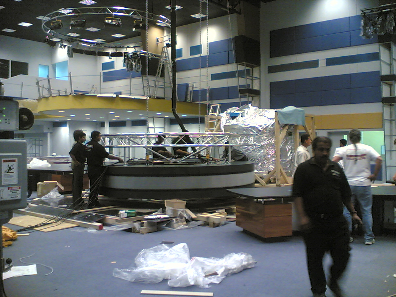 Newsroom for Aljazeera Arabic channel in Doha under construction (2005)news room in aljazeera under construction !